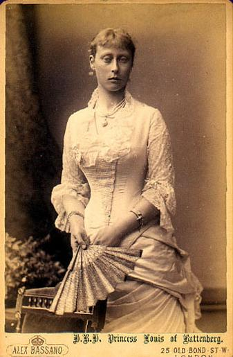 Princess Victoria, Marchioness of Milford-Haven